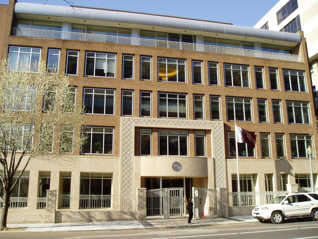 The Embassy of the State of Qatar located at 2555 M Street, NW in the West End neighborhood of Washington, D.C. Former tenants of the building (constructed in 1975) include the Embassy of South Africa and Miller, Cassidy, Larroca & Lewin LLP.